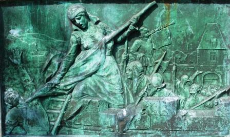 One of Paulk Theunissen's two reliefs on the Peronne monument aux morts. This shows a scene from Charles Quint's unsuccessful siege of 1536. Catherine of Poix, also known as “Marie Fouré" led the defence of the town, throwing a Spaniard off the top of the wall.